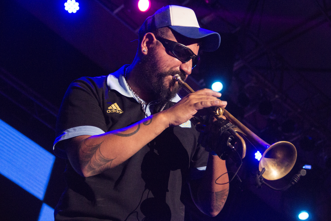 San Rafael, 22 de febrero de 2015En el marco de la campaña "Verano de emociones", organizada por Presidencia de la Nación en conjunto con el Ministerio de Cultura de la Nación se presentó en San Rafael Dancing Mood